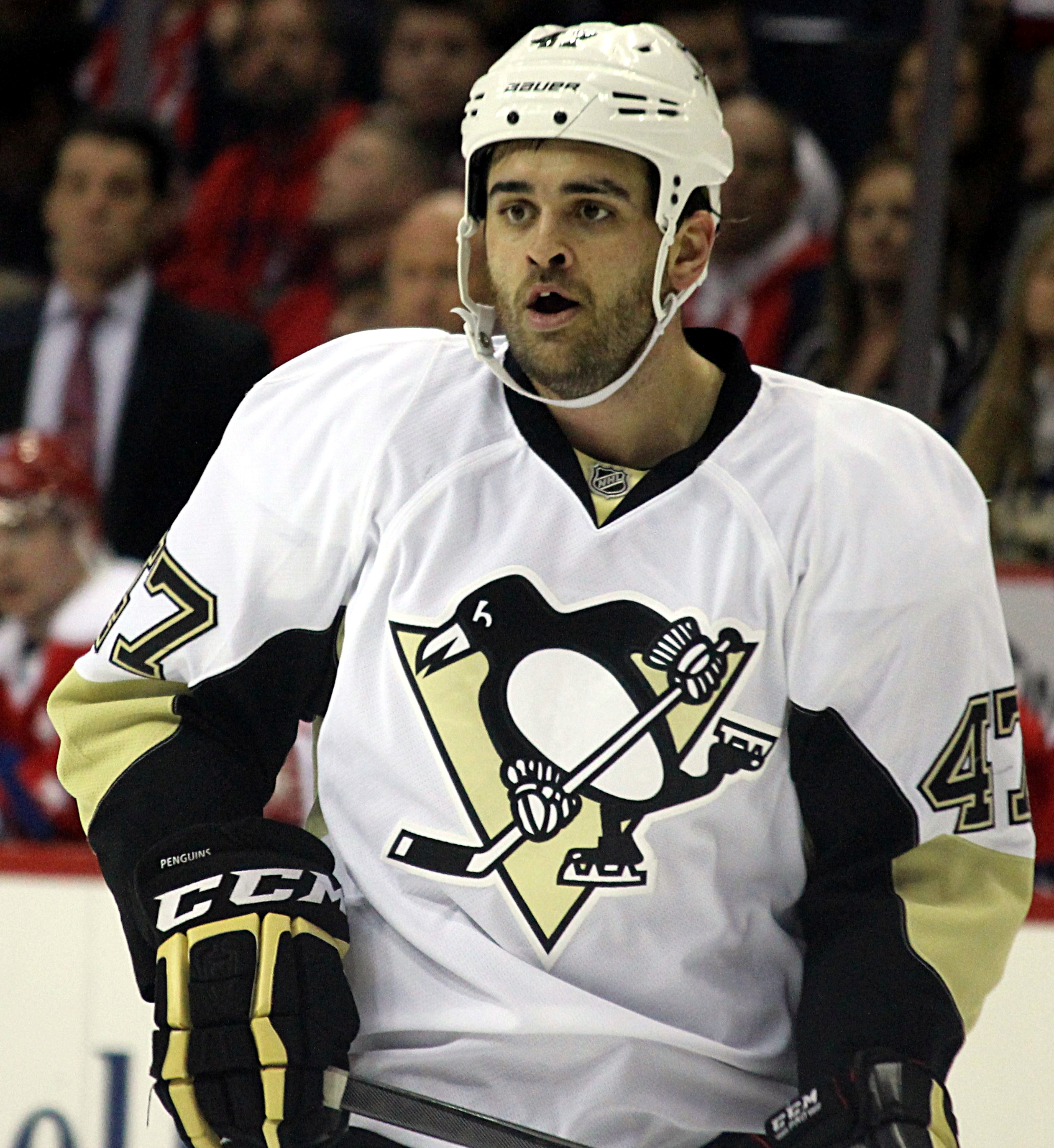 Pittsburgh Penguins forward Tom Sestito during a game against the Washington Capitals, Thursday, April 7, 2016 at Verizon Center in Washington, D.C.